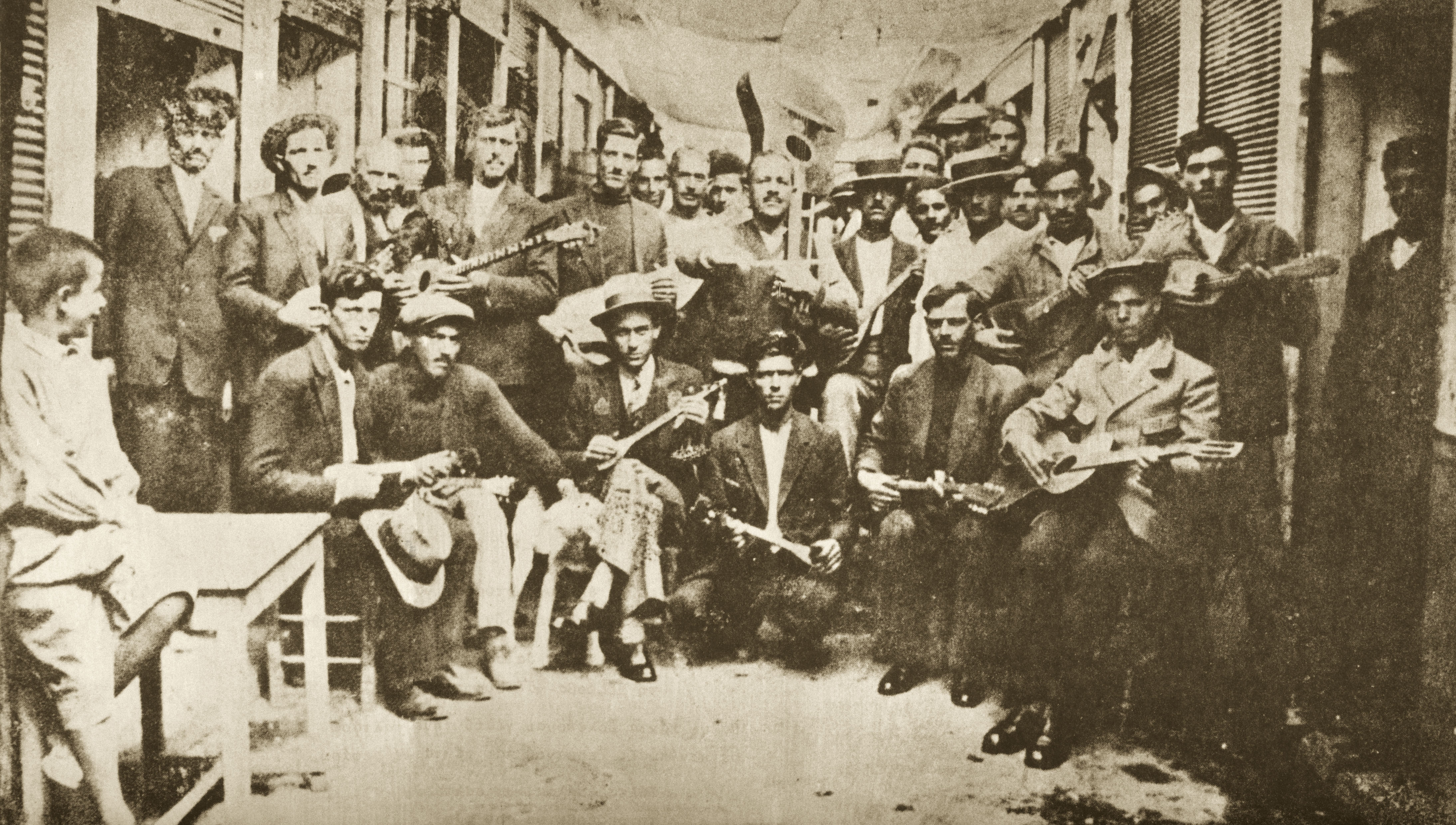 Rembetes 1933 in Karaiskaki, Piraeus. Left with bouzouki Markos Vamvakaris, in middle with guitar Yiorgos Batis.